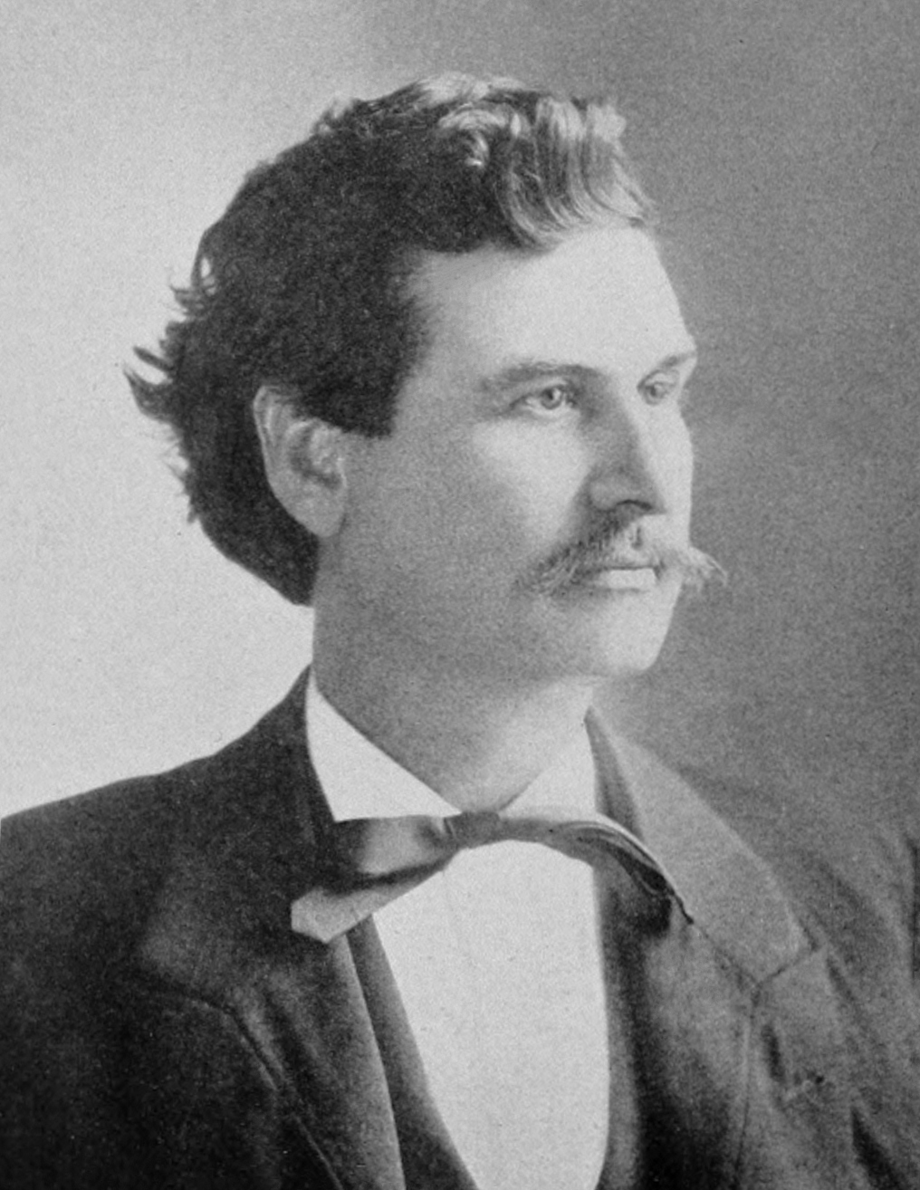 Kentucky Congressman Thomas Y. Fitzpatrick